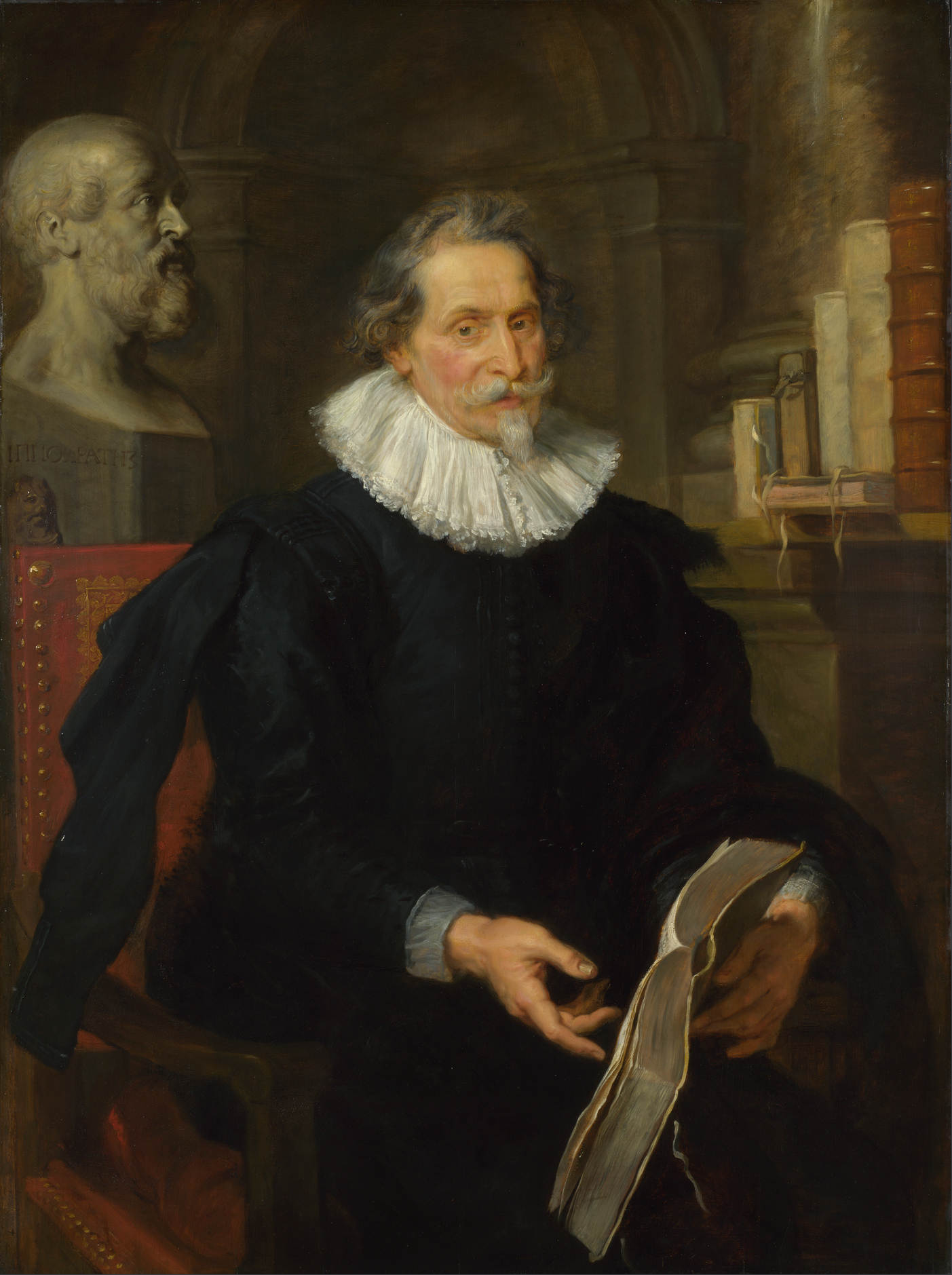 Ludovicus Nonnius (1553-1645), a doctor and antiquarian from a Portuguese family who worked in Antwerp.